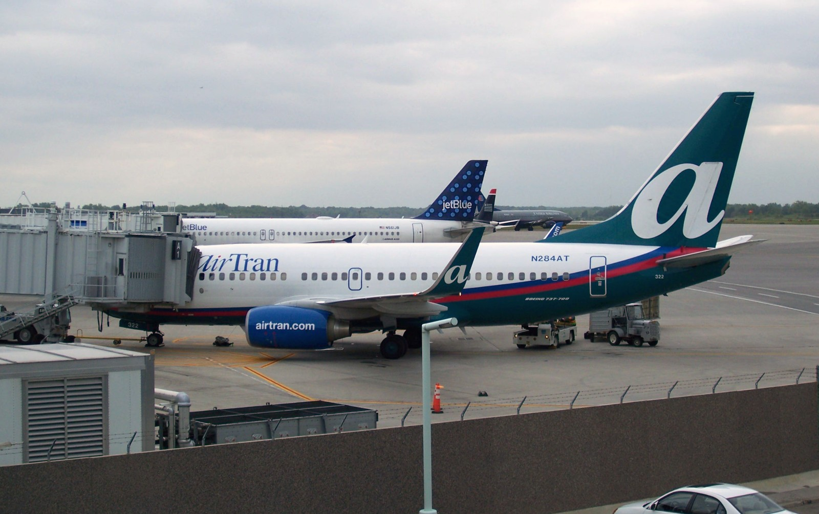 AirTran Airways Boeing 737-700 at Greater Rochester, NY International Airport in August 2007.